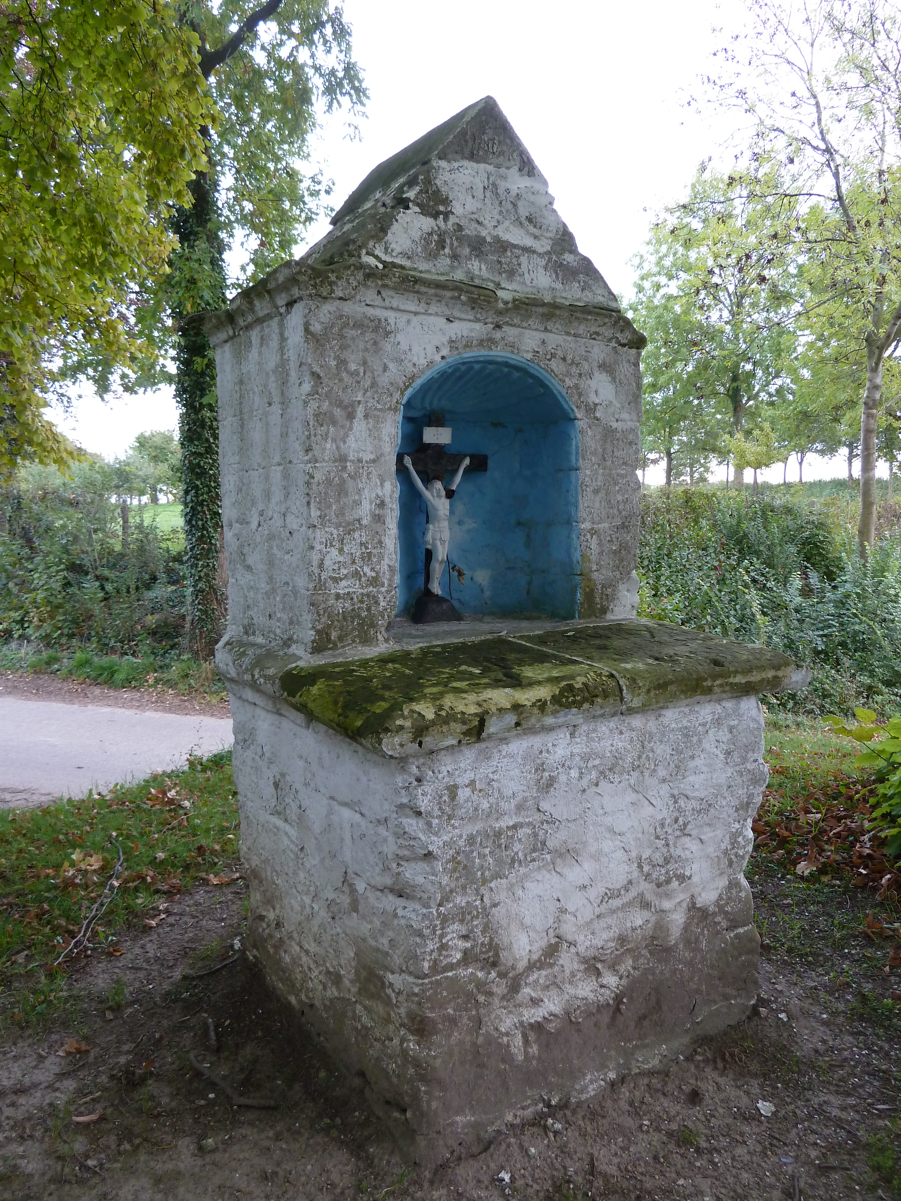 Chapel at crossing Schansweg-Rijksweg, Berg, Limburg, the Netherlands